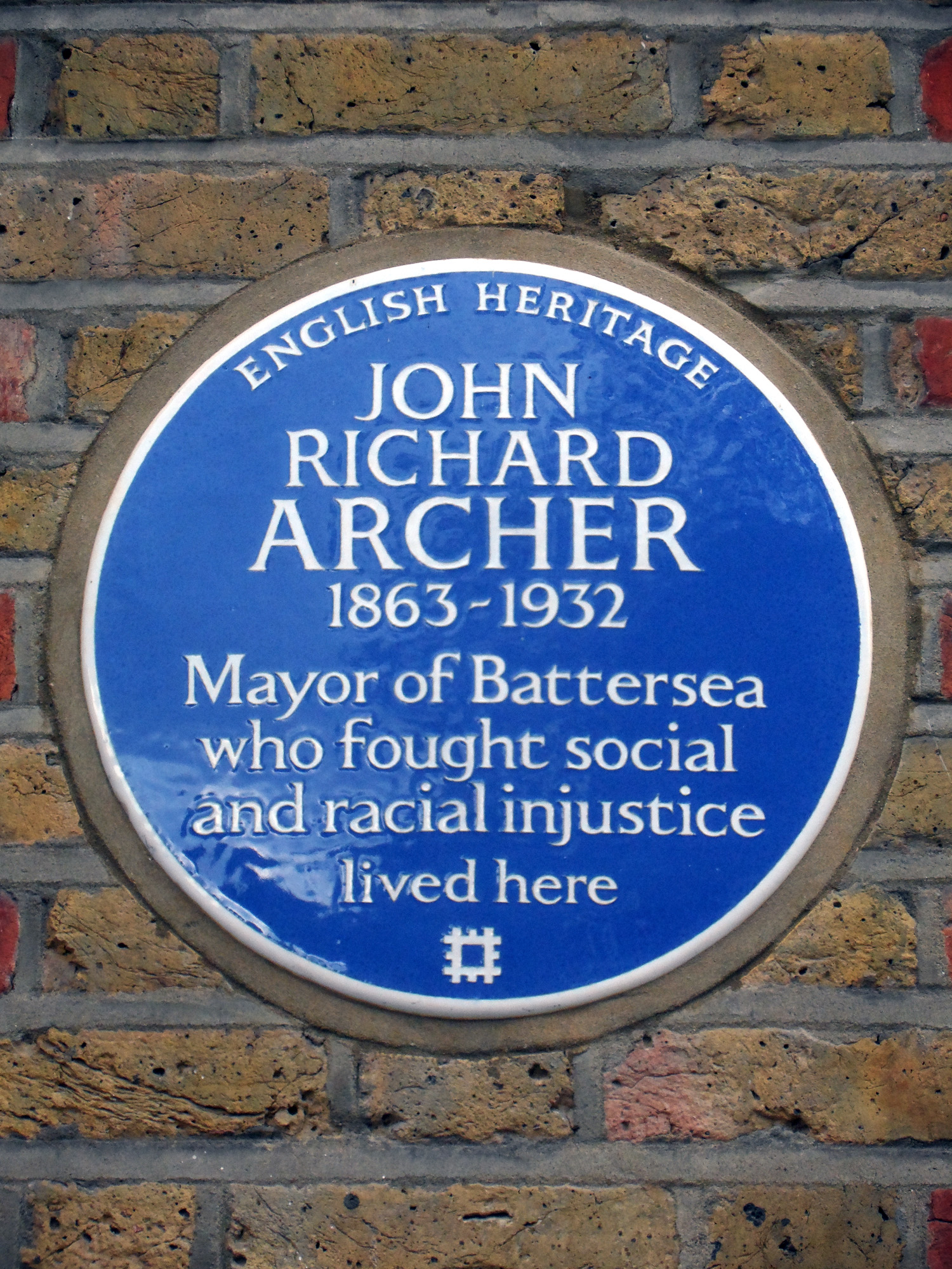 Blue plaque erected in 2013 by English Heritage at 55 Brynmaer Road, Battersea, London SW11 4EN, London Borough of Wandsworth